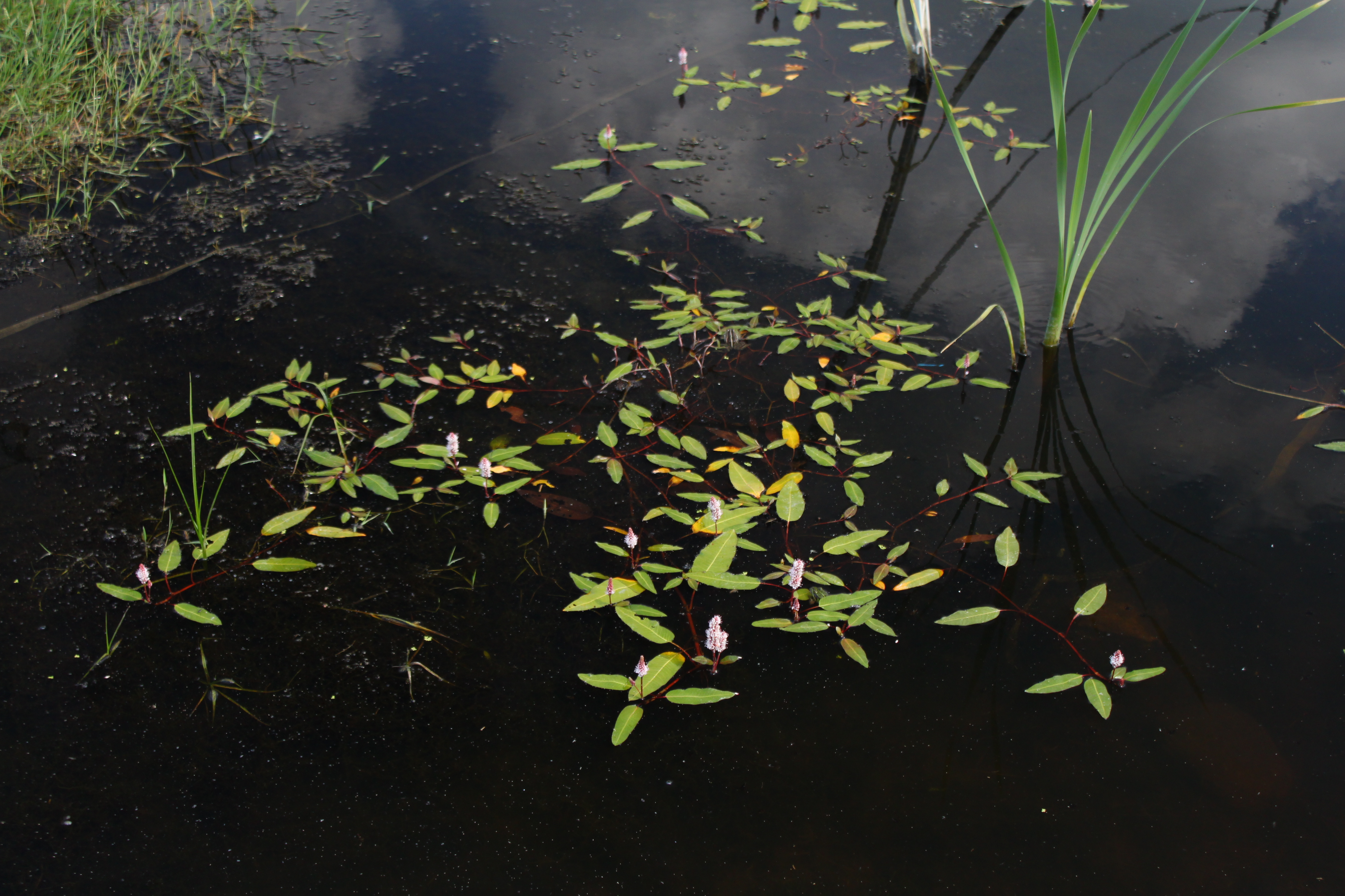 Persicaria amphibia in Marki, Poland